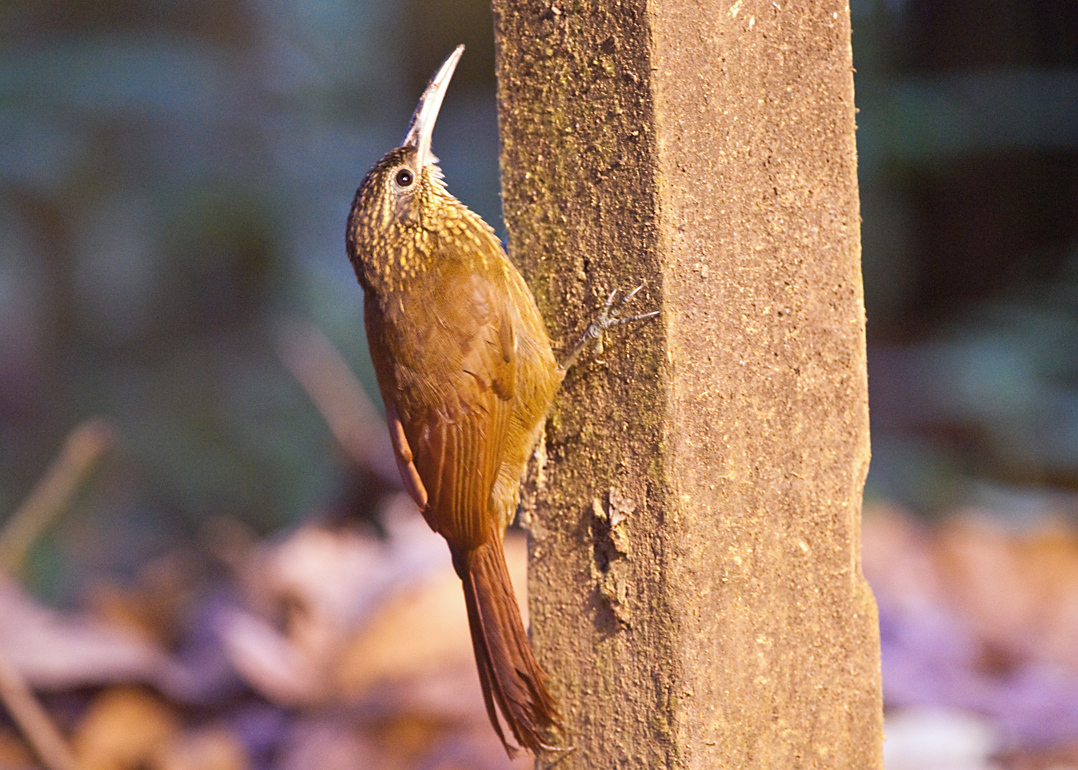 A Cocoa Woodcreeper near Rancho Naturalista, Cordillera de Talamanca, Costa Rica.